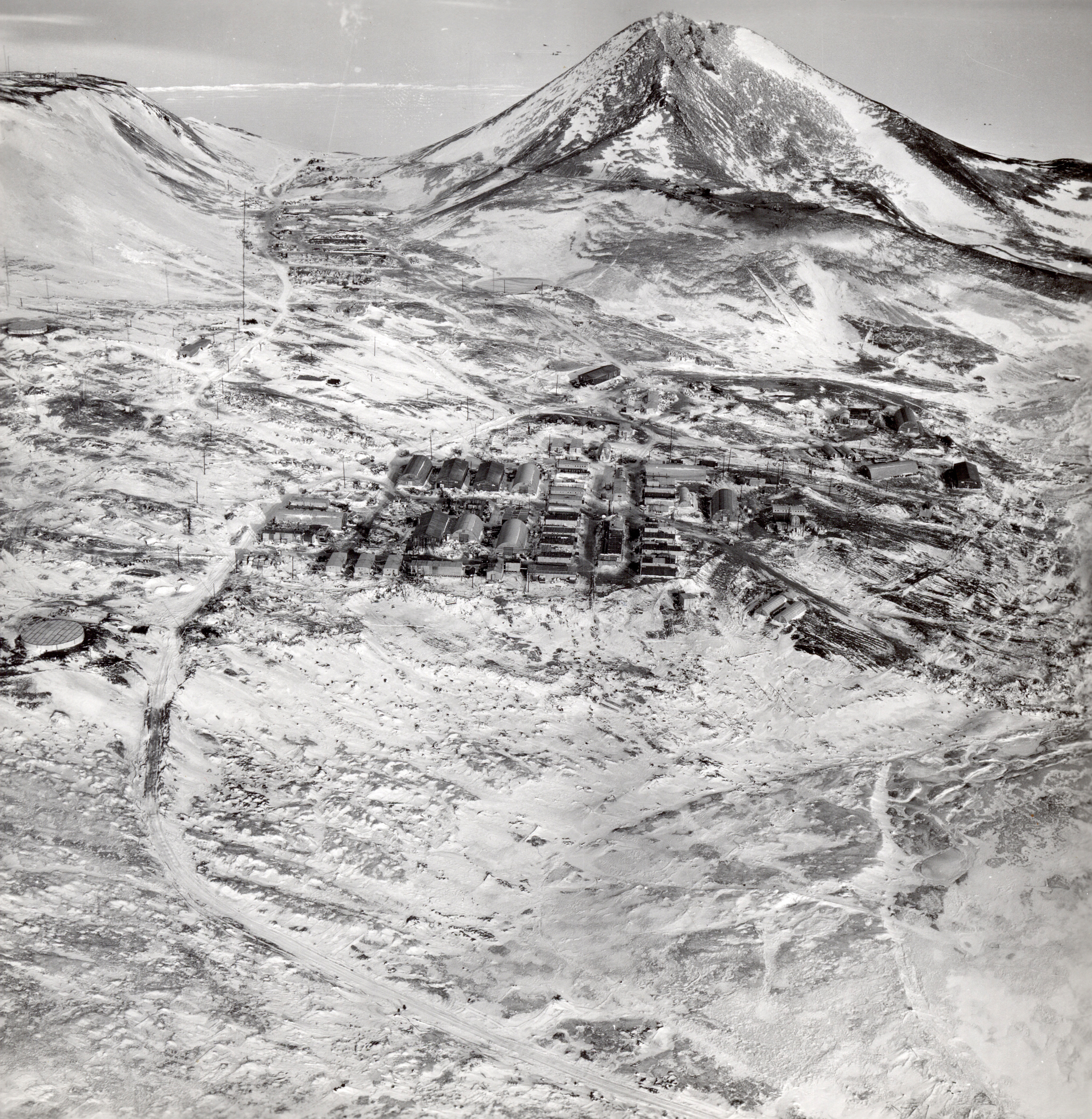 McMurdo Station as it looked during the austral summer of 1960 - 1961.